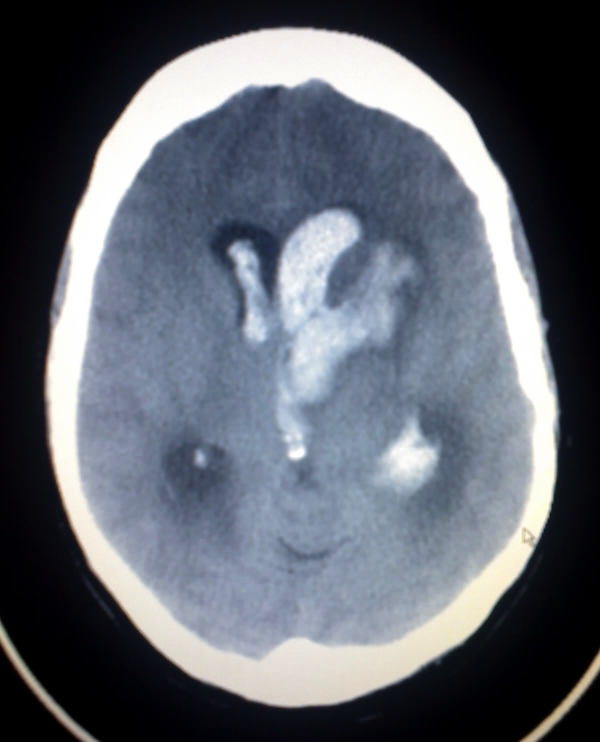 This image shows an Intracerebral and Intraventricular haemorrhage of a young woman. The woman was one week post partum, with no known trauma involved.